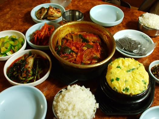 Gajami jorim (braised flatfish), and baekban (cooked rice and array of banchan, small side dishes) in Korean cuisine.